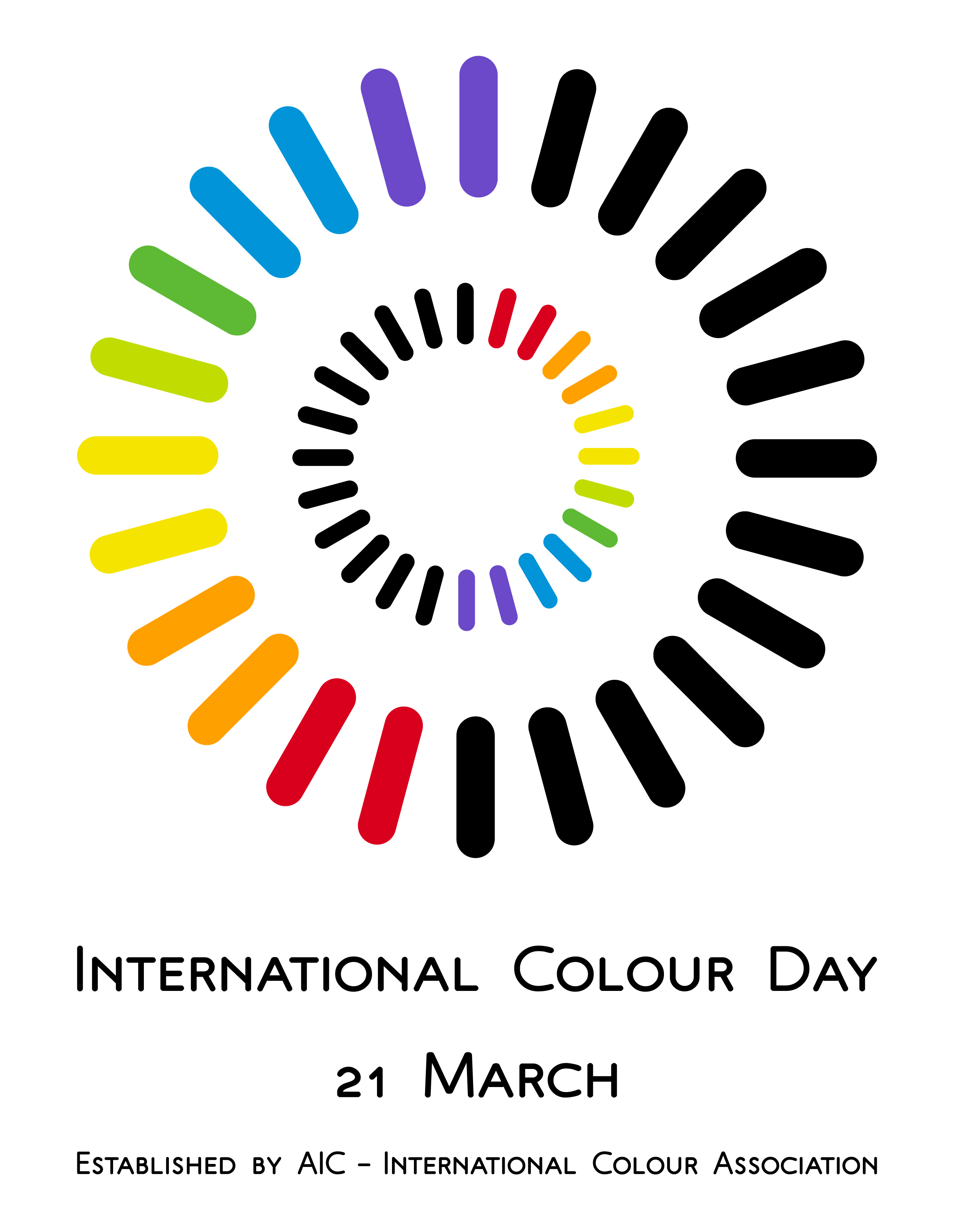 Logo adopted after an international competition to celebrate the International Colour Day.